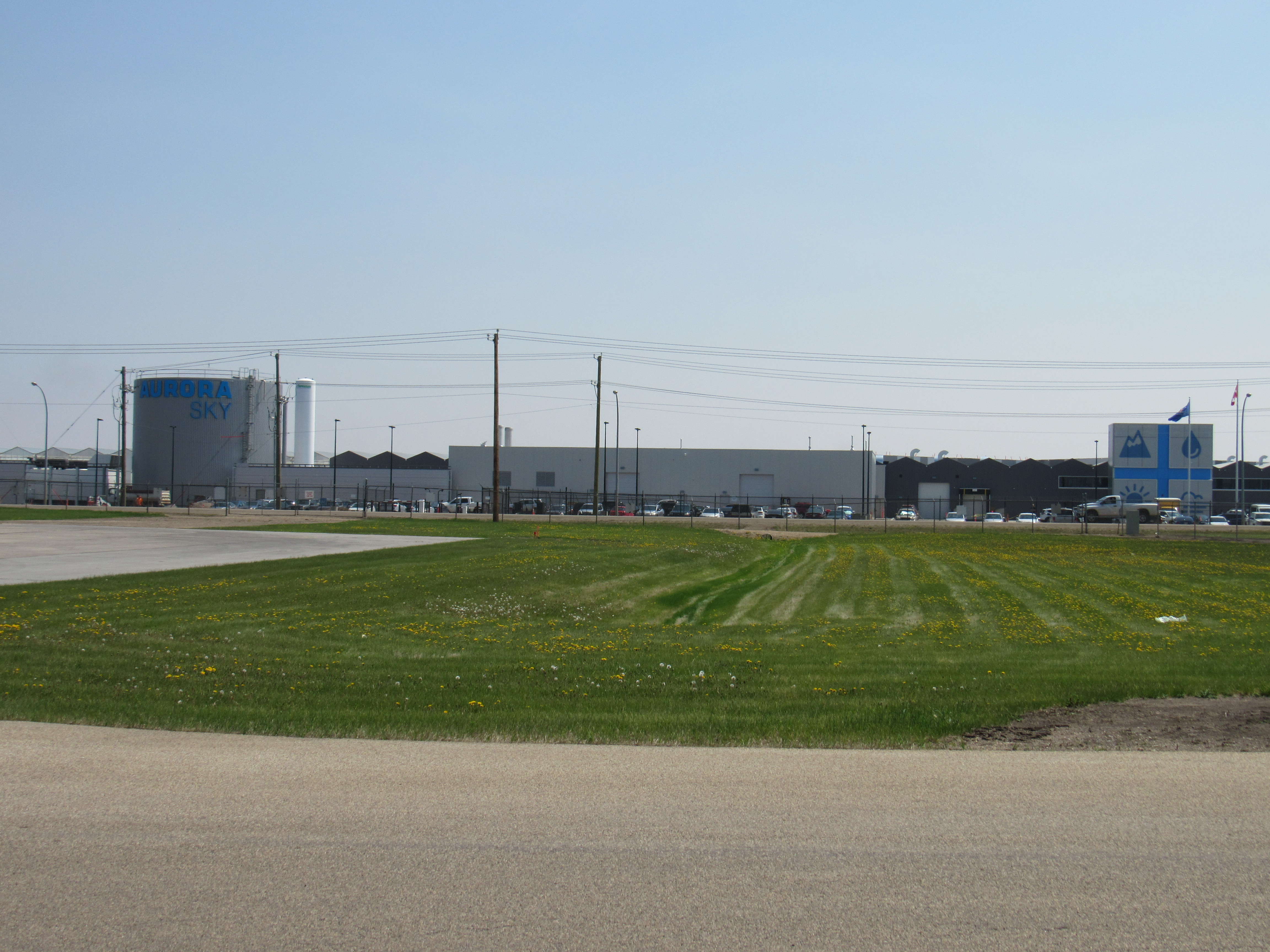 Aurora Cannabis green house and Headquarters at (YEG)